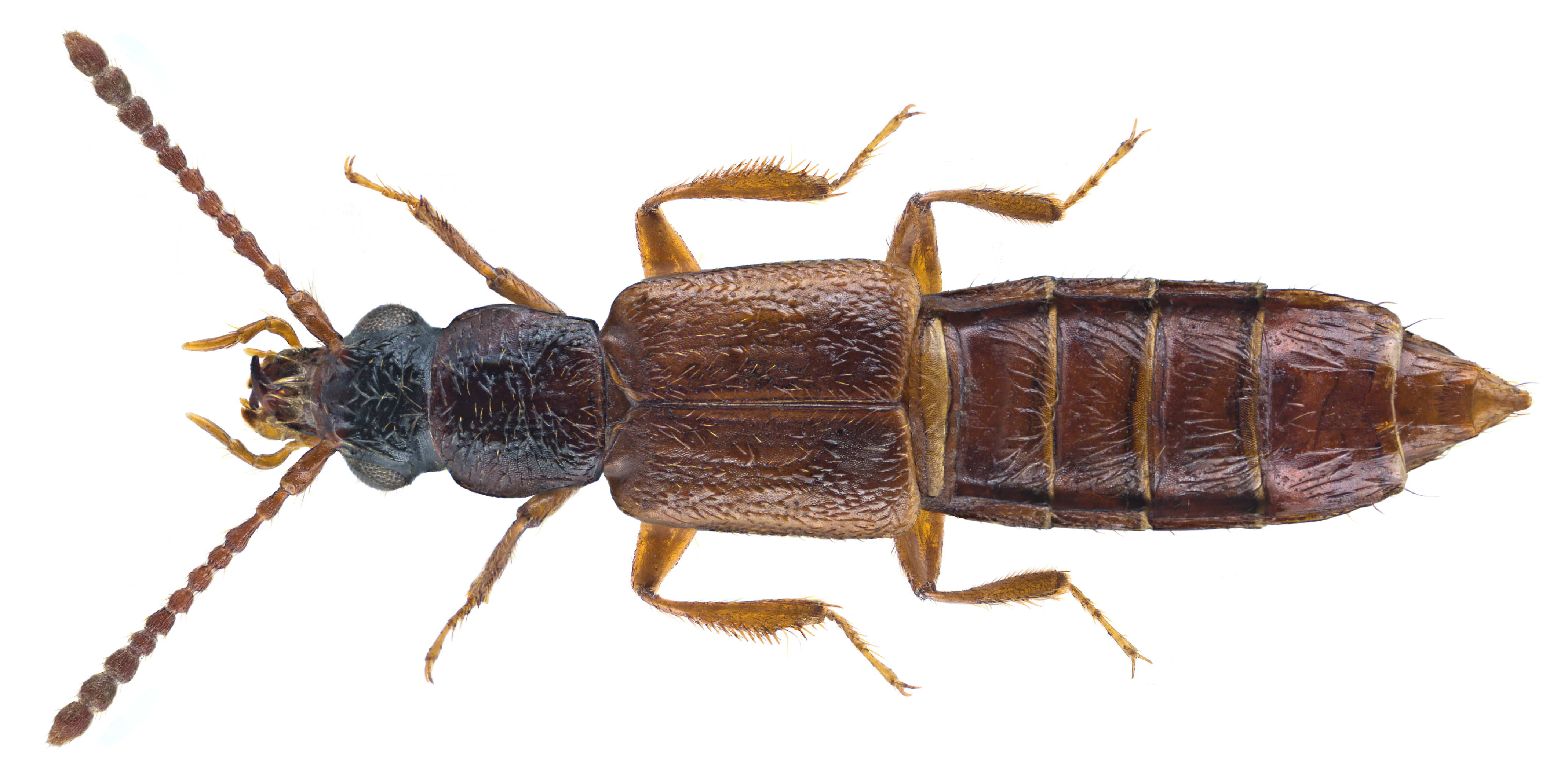 Family: Staphylinidae Size: 6,8 mm (5,8 to 7,0 mm ) Origin: Central Europe, Greece Ecology: lives on banks Location: Germany, Nordrhein-Westfalen, Bruehl, Staatsforst Ville leg.det. F.Koehler, 18.V.1989 Photo: U.Schmidt, 2015